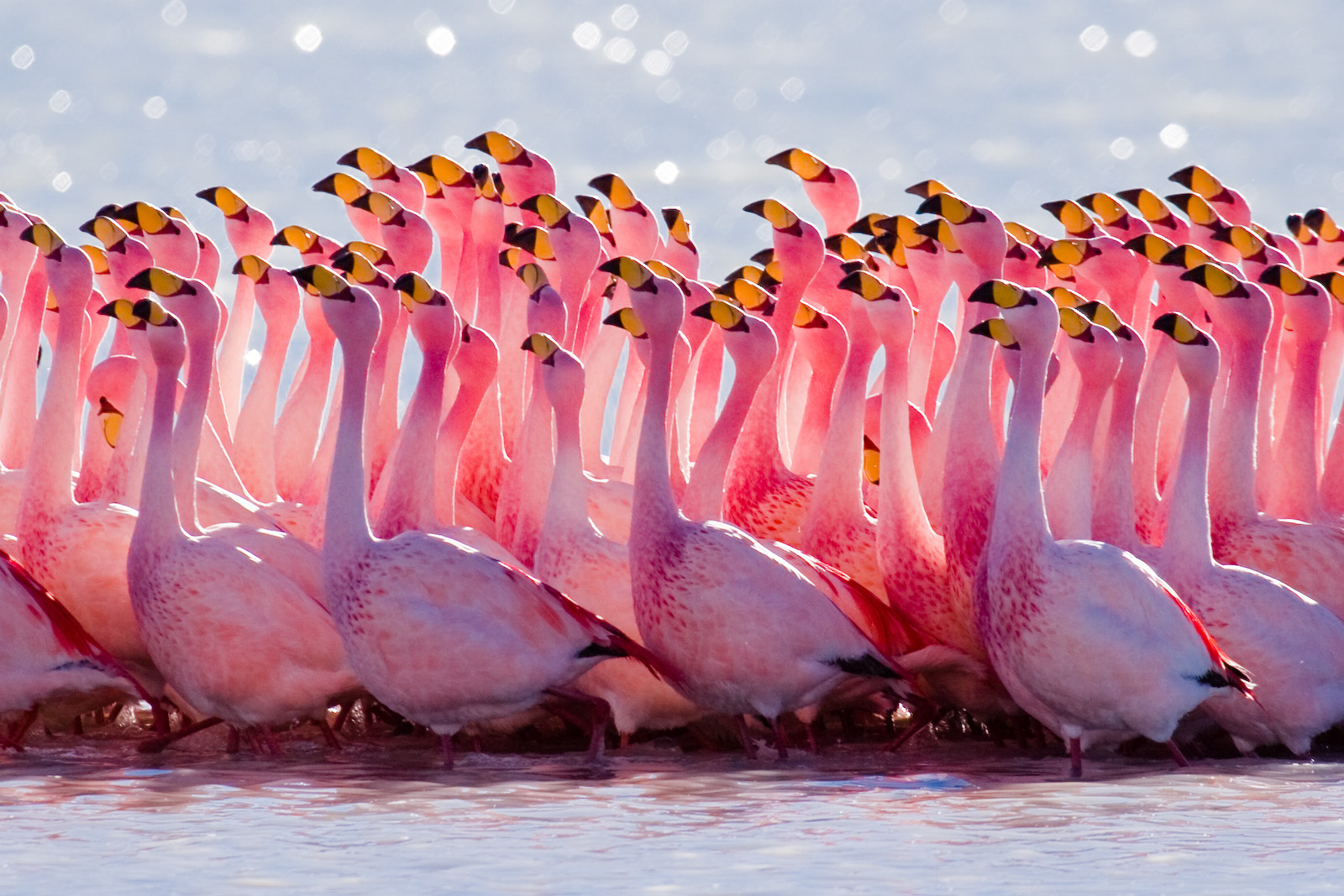 Mating Ritual: James's Flamingo Original caption: “The James's Flamingo (Phoenicoparrus jamesi), also known as the Puna Flamingo, is a South American flamingo, named for Harry Berkeley James. It breeds on the high Andean plateaus of Peru, Chile, Bolivia and Argentina. It is related to the Andean Flamingo, and the two are often placed in the genus Phoenicoparrus. It is a small and delicate flamingo, approximately 3 feet in height. Its plumage is pale pink, with bright carmine streaks around the neck and on the back. When perched a small amount of black can be seen in the wings. There is bright red skin around the eye. The legs are brick-red and the bill is bright yellow with a black tip. Immature birds are greyish. James's Flamingo is similar to other South American flamingos, but the Chilean Flamingo is pinker, with a longer bill without yellow, and the Andean Flamingo is larger with more black in the wings and bill, and yellow legs.”